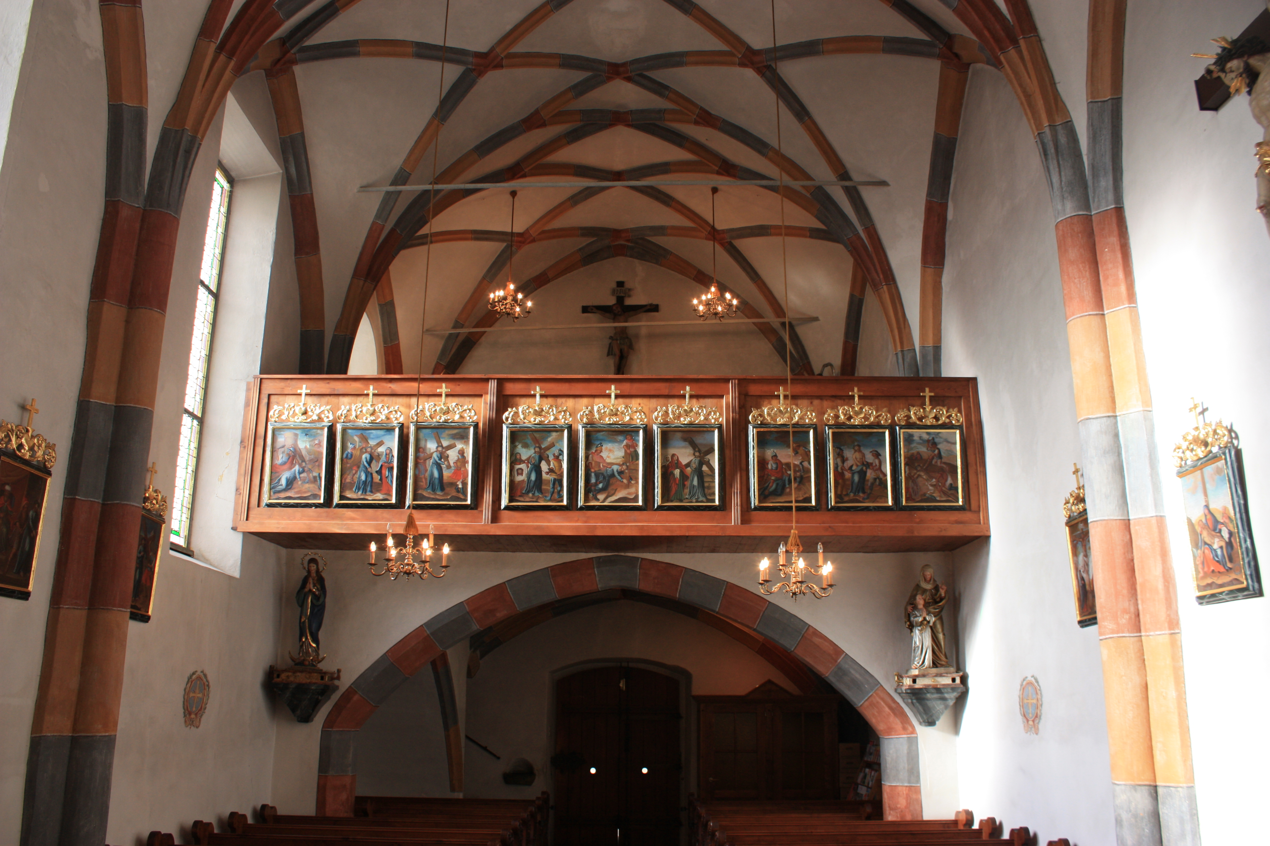 Parish church in Mörtschach - View to the organ loft